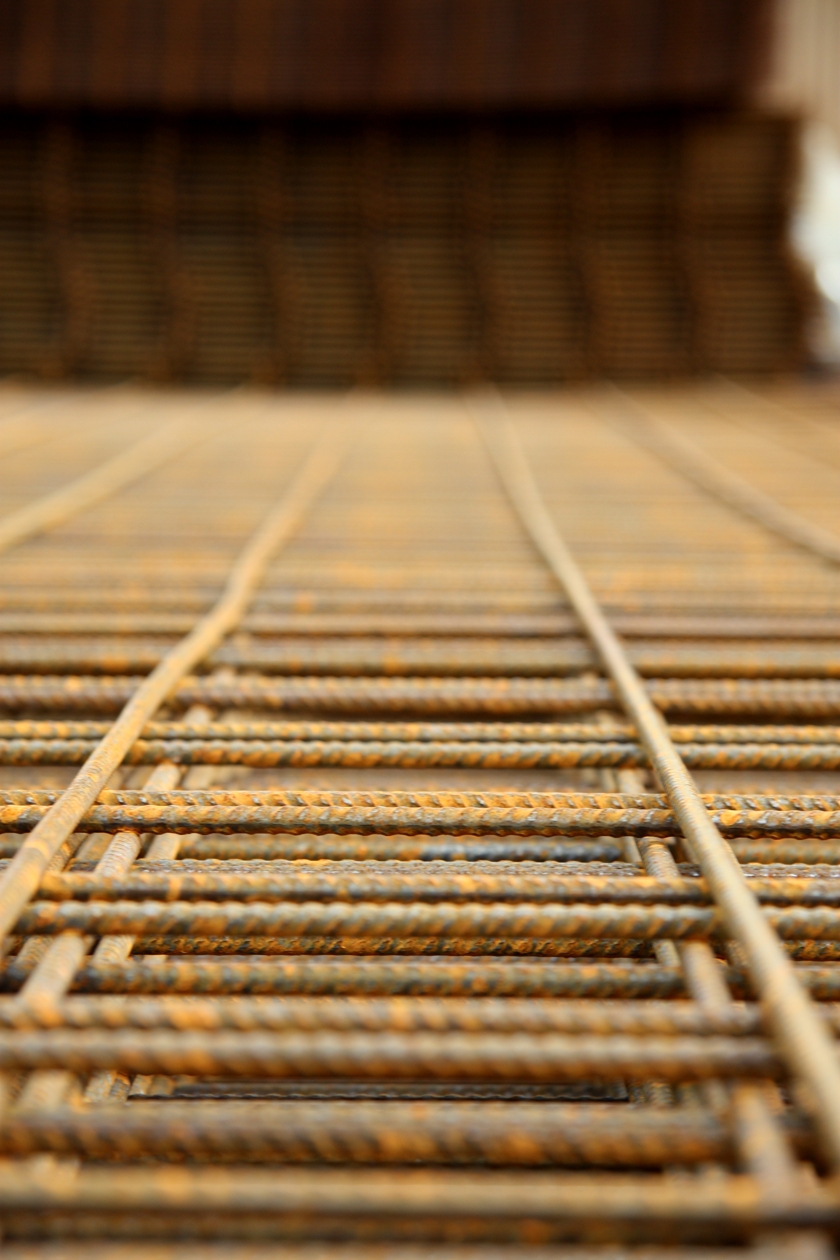 Celsa Nordic